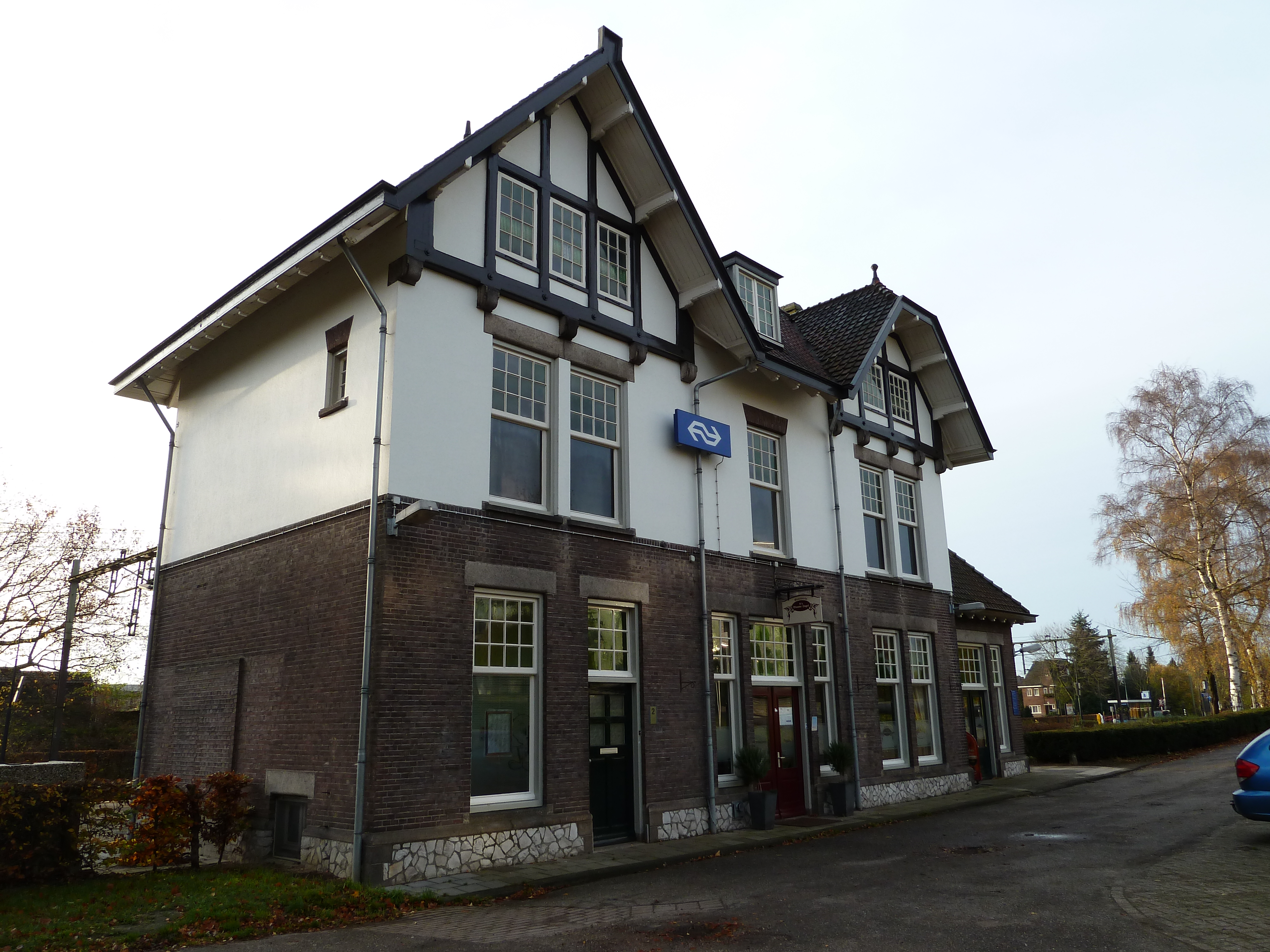 Mareheiweg 2, Ransdaal, Limburg, the Netherlands